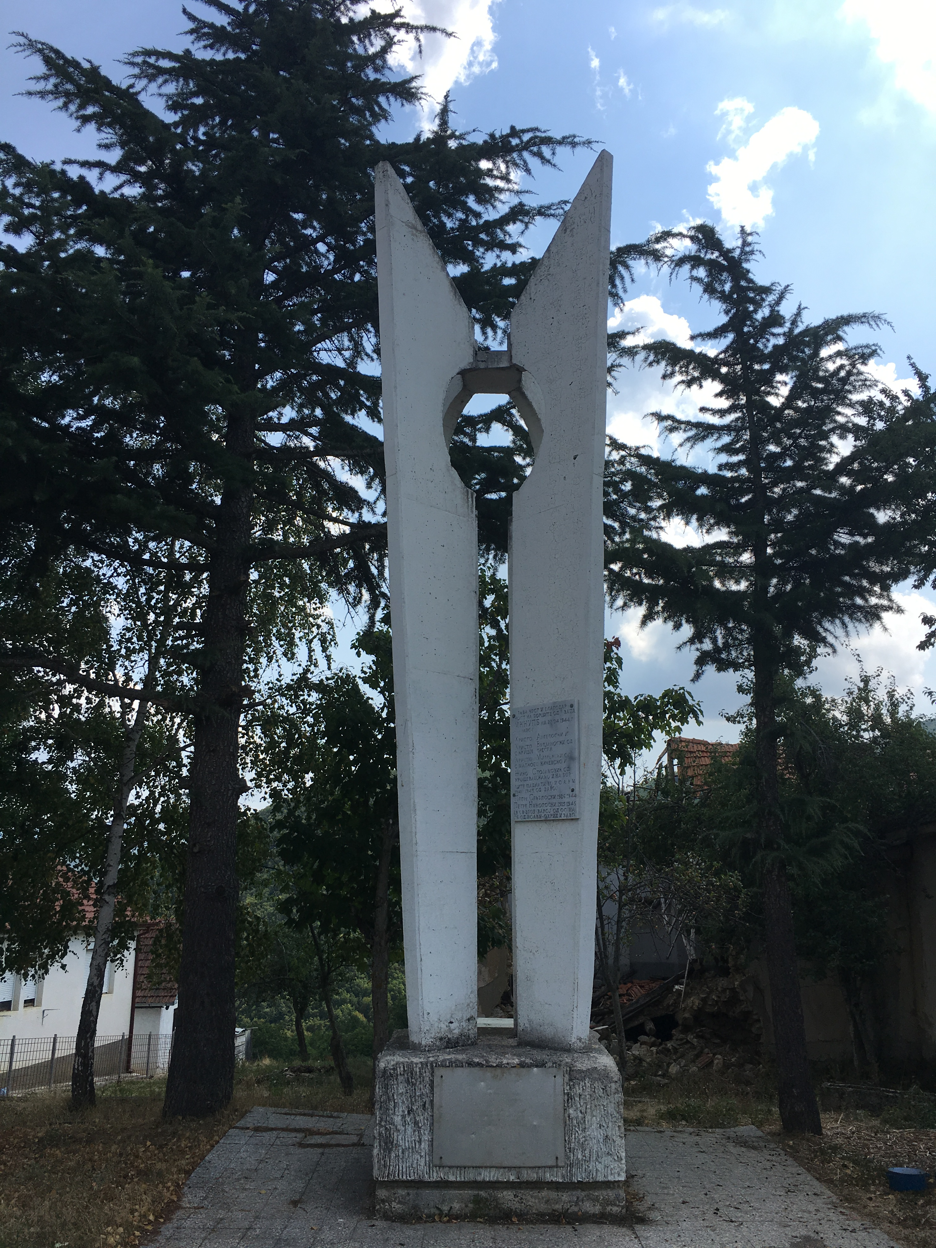 A monument in the village of Zavoj